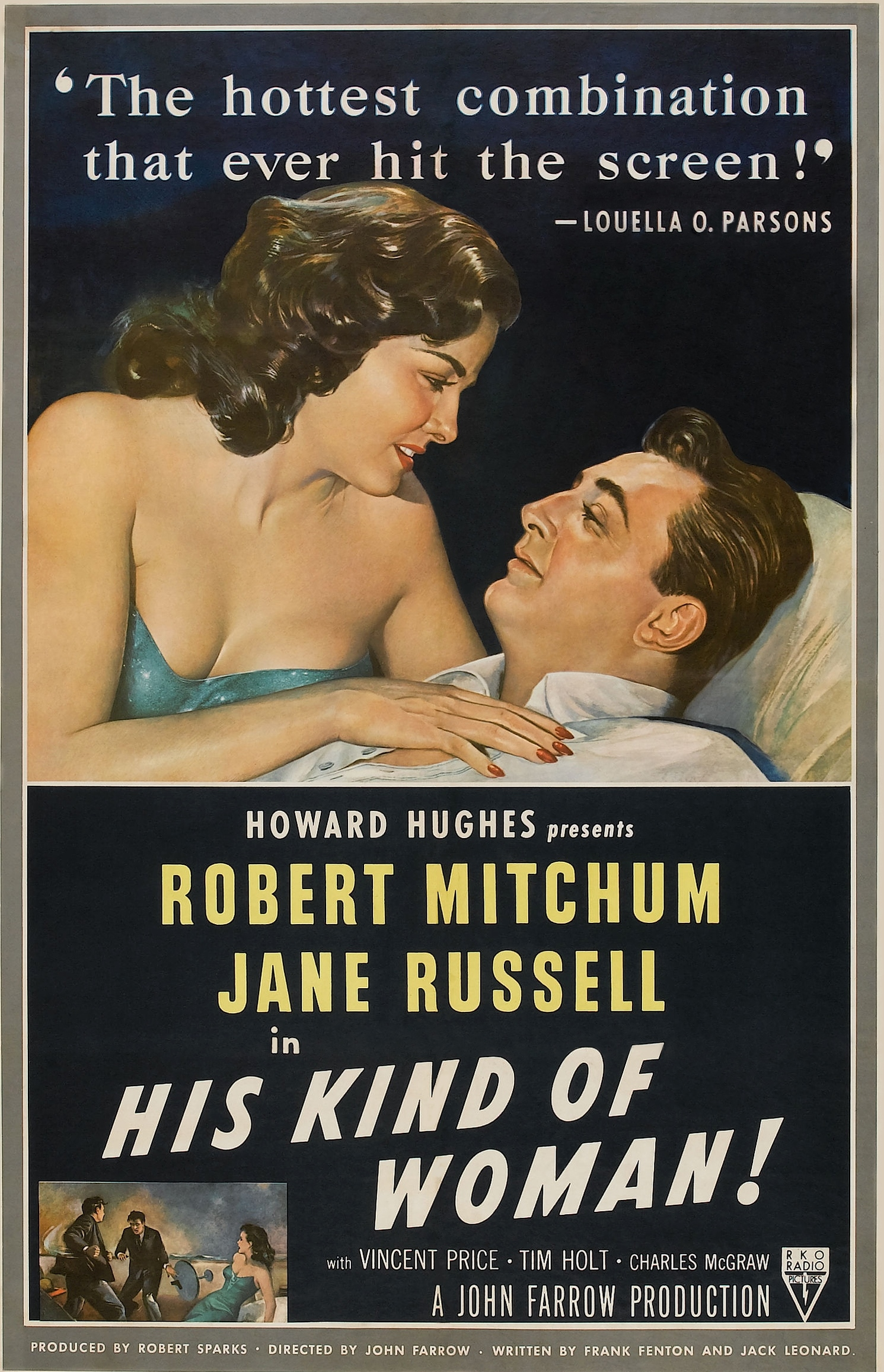 Film poster for RKO's 1951 film His Kind of Woman. Although the lobby cards have copyright notices, this poster (surprisingly, IMHO), doesn't.